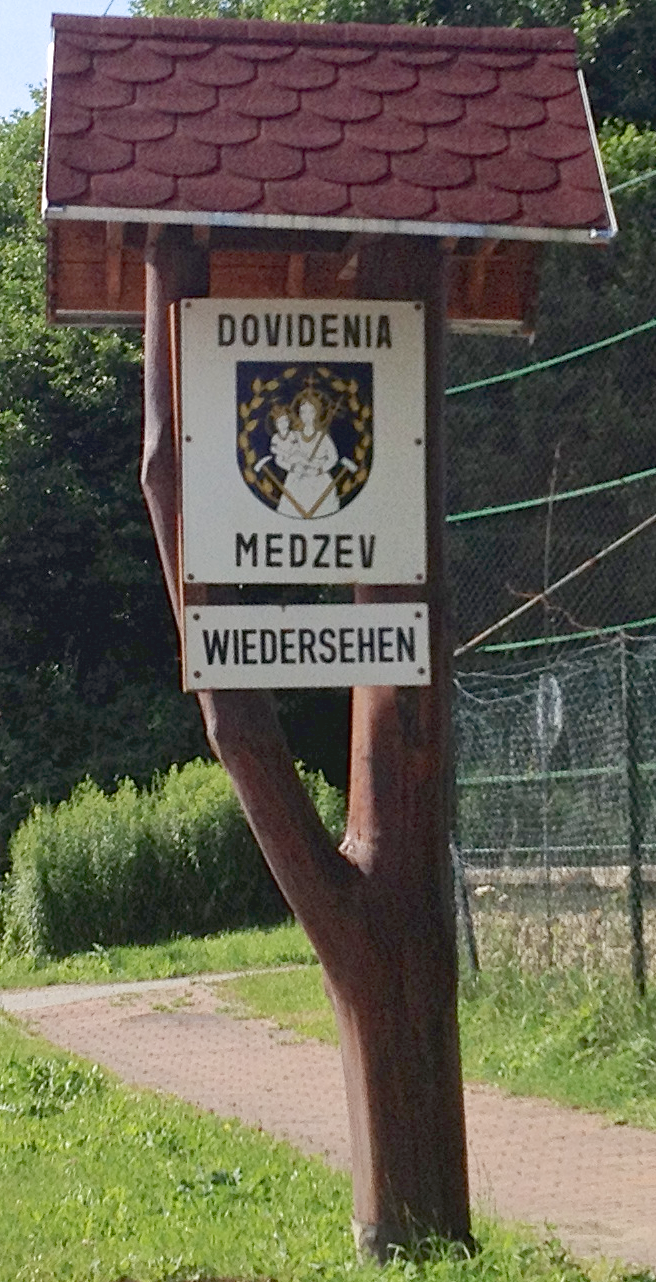 Departure sign when leaving Metzenseifen towards Štós.